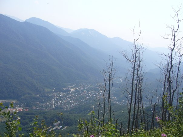 Panoramic view of Krasnaya Polyana (Sochi, Russia) from the observation point at "Tsar's dwelling" (царский охотничий домик)